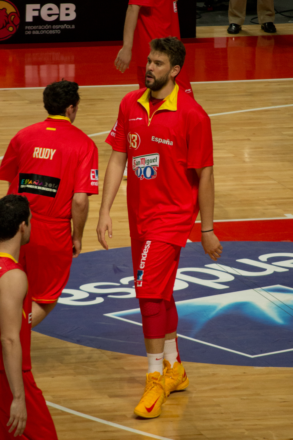 Marc Gasol with Spain national basketball team.